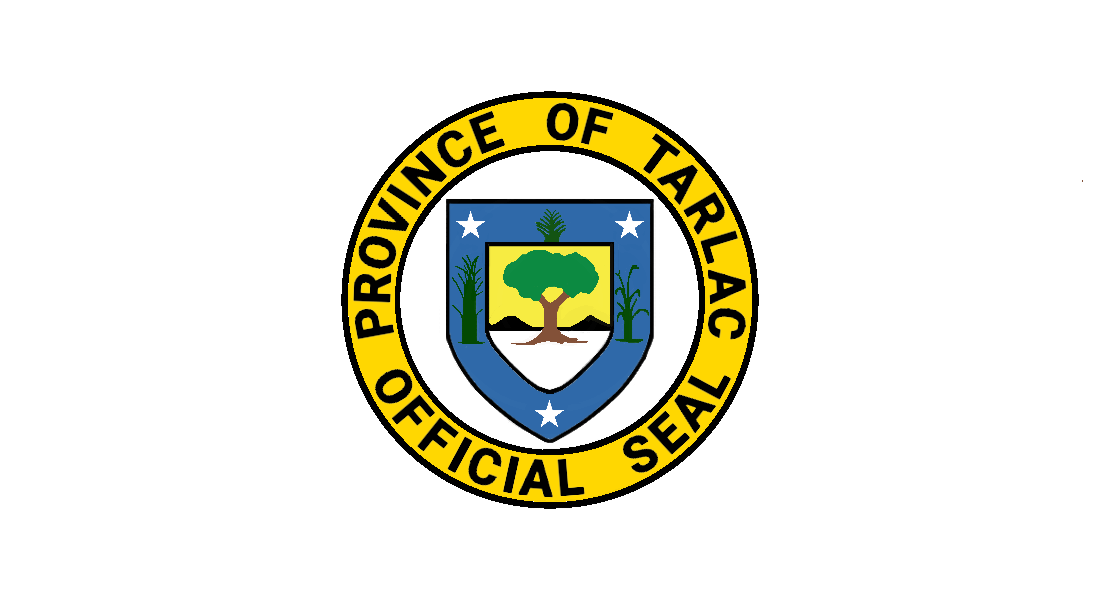 Provinciaial flag of Tarlac